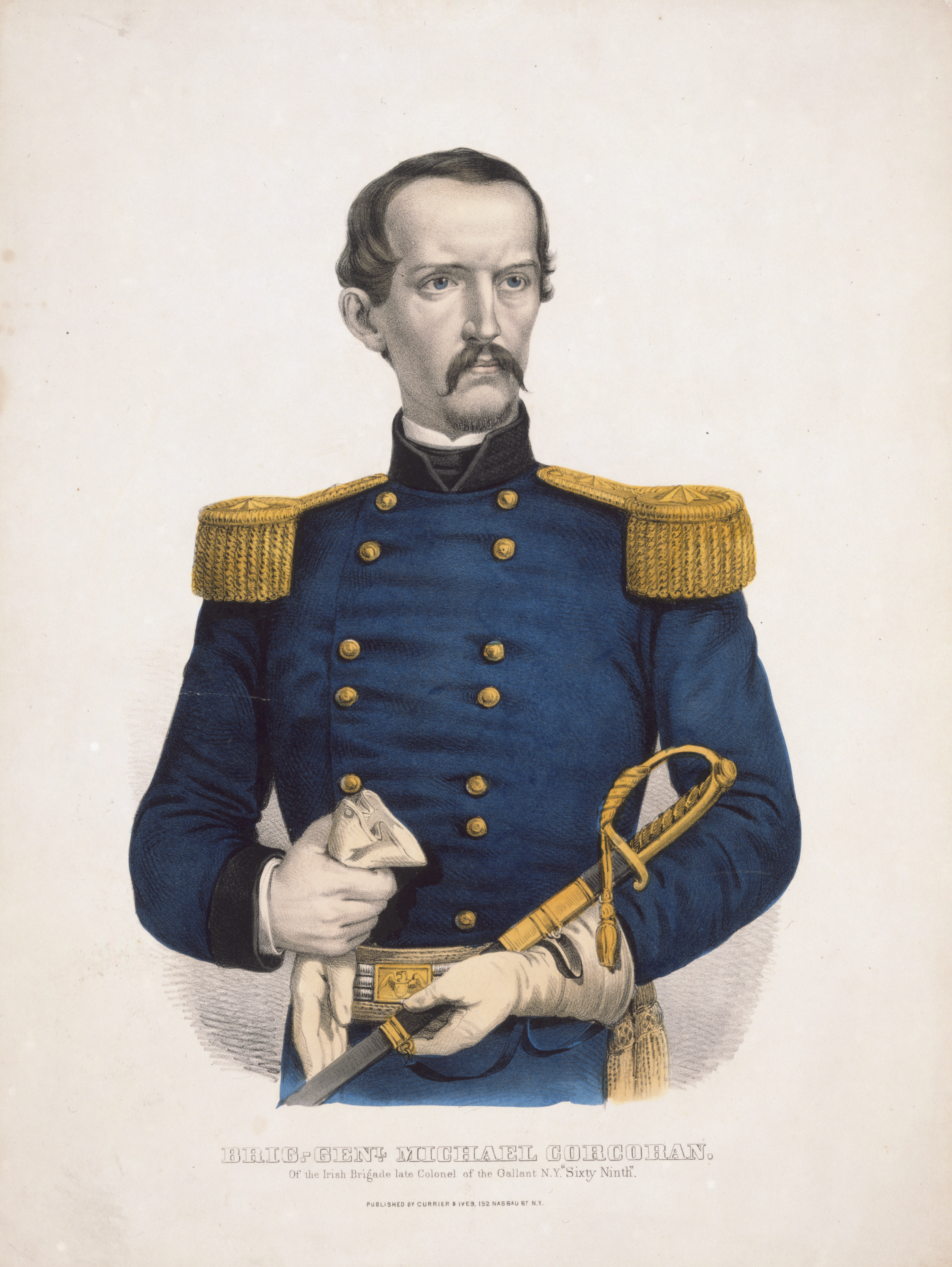 Brig.-Genl. Michael Corcoran - of the Irish Brigade late colonel of the gallant N.Y. "Sixty Ninth". Print shows Michael Corcoran, half-length portrait, facing slightly right, wearing military uniform and holding sword in left hand.